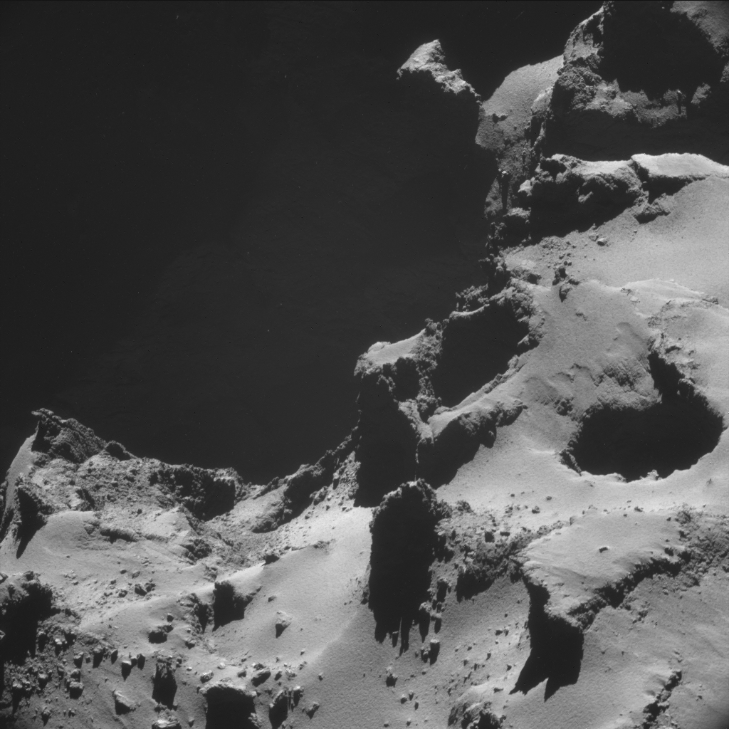 Full-frame Rosetta navigation camera (NAVCAM) image taken on 15 October 2014 at 9.9 km from the centre of comet 67P/Churyumov–Gerasimenko. NAVCAM image sequences are now being taken as small 2×2 rasters and only part of the comet is seen in each of the four images. A montage of all four images from this sequence is available here.